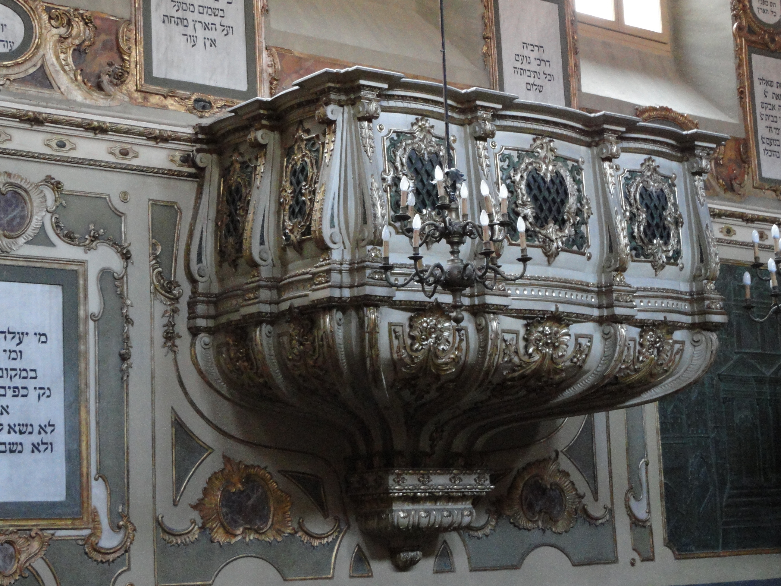 Pulpit of the synagogue of Casale Monferrato (Piemonte - Italy)